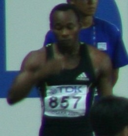 World Athletics Championships 2007 in Osaka: Olusoji Fasuba